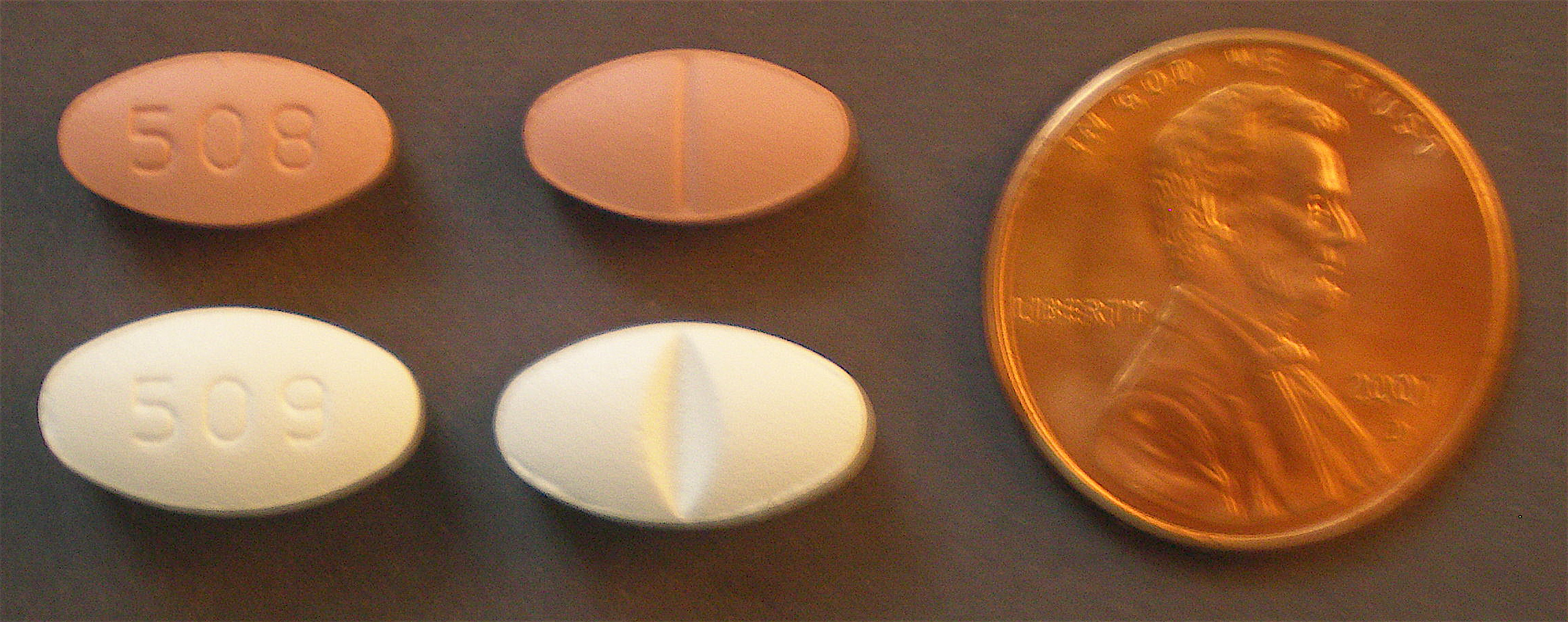 Citalopram Hydrobromide Tablets of 20 mg (coral, marked 508) and 40 mg (white, marked 509).